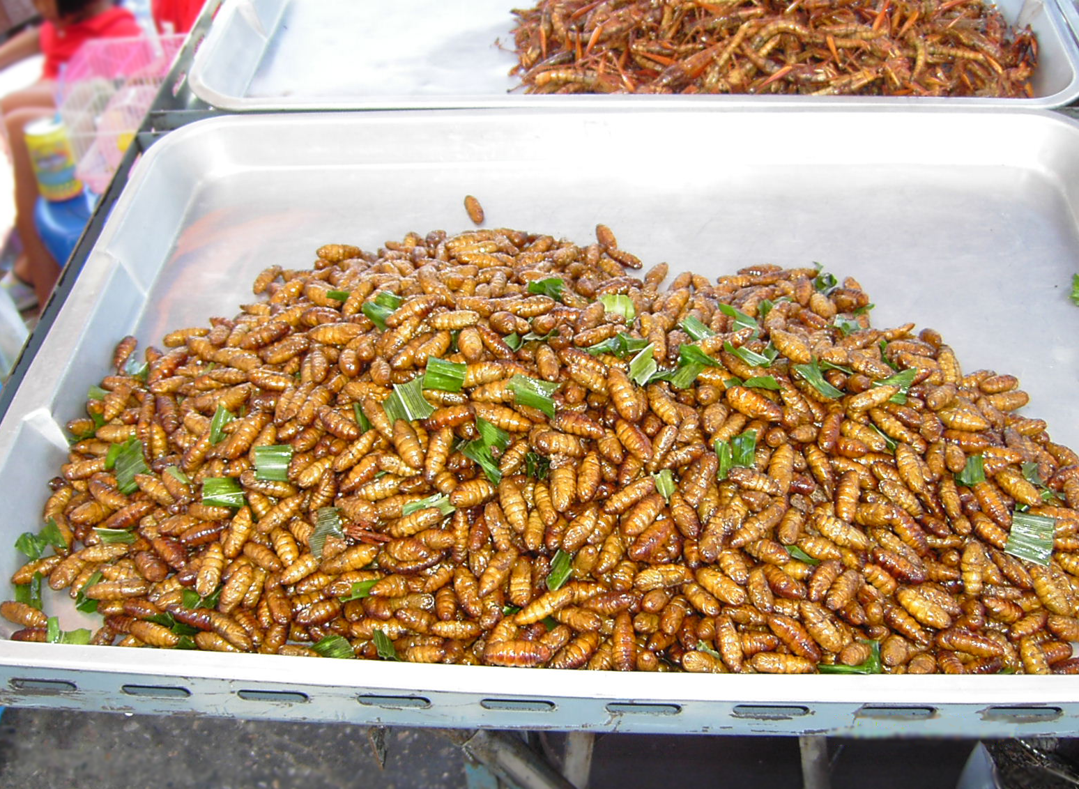 Deep-fried chrysalis on a plate